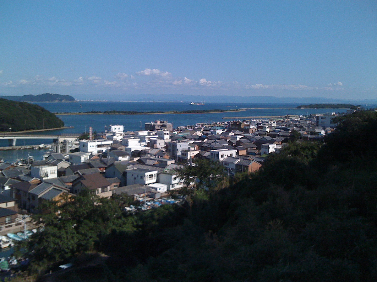 the view of Narugashima Island and Yura town. in Hyogo Pref., Japan.